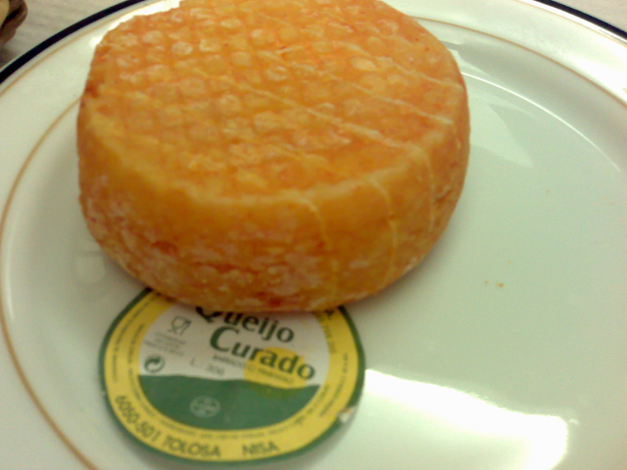 Queijo mestiço de Tolosa, a portuguese cheese.